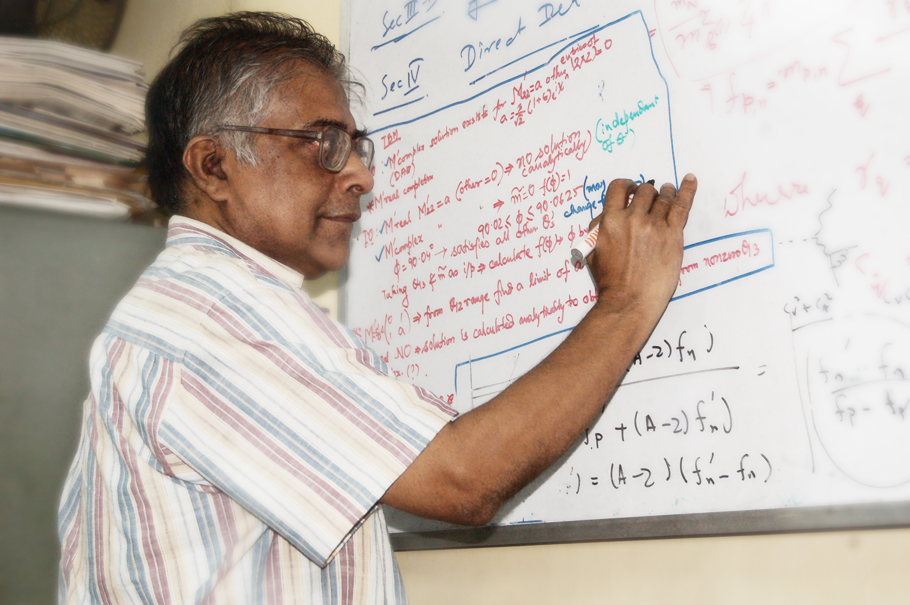 This is a photo of physicist Prof. Amitava Raychaudhuri teaching at the University of Calcutta.